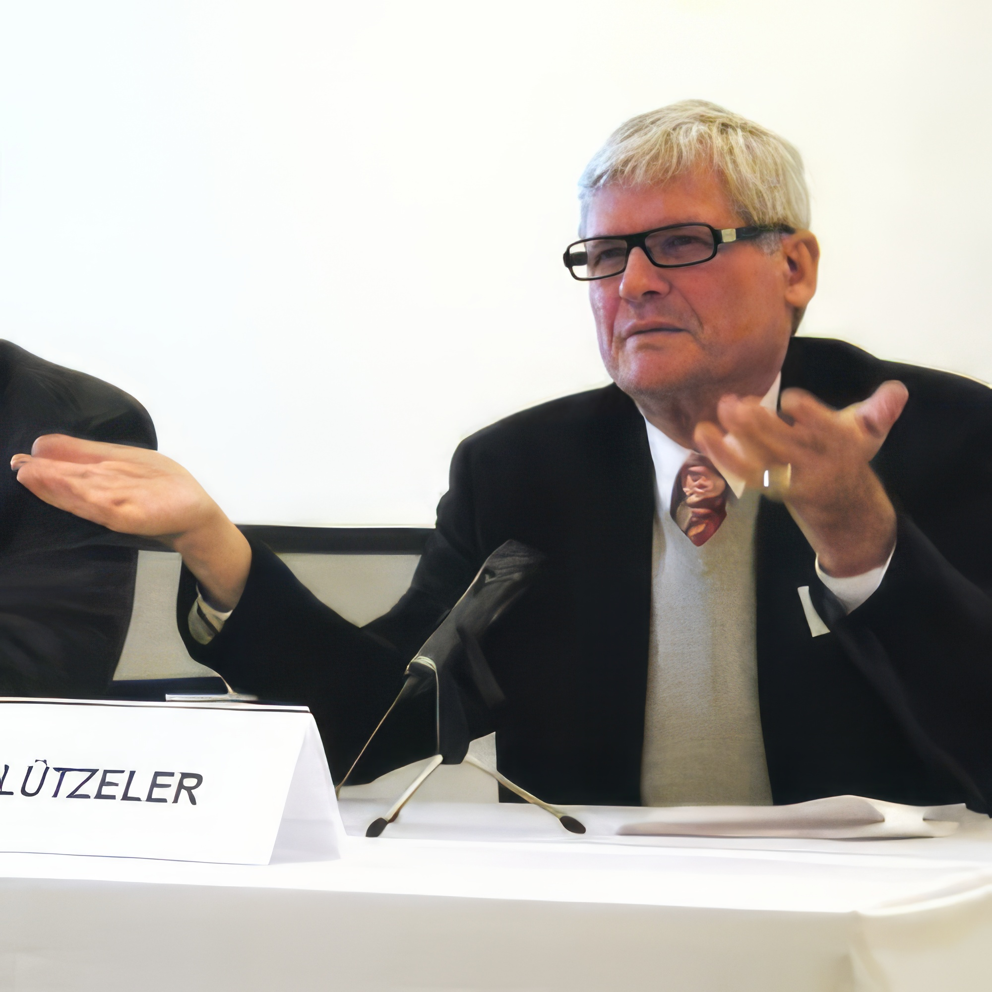 Image 4 of a 4-image sequence cropped and overworked by User:RX-Guru